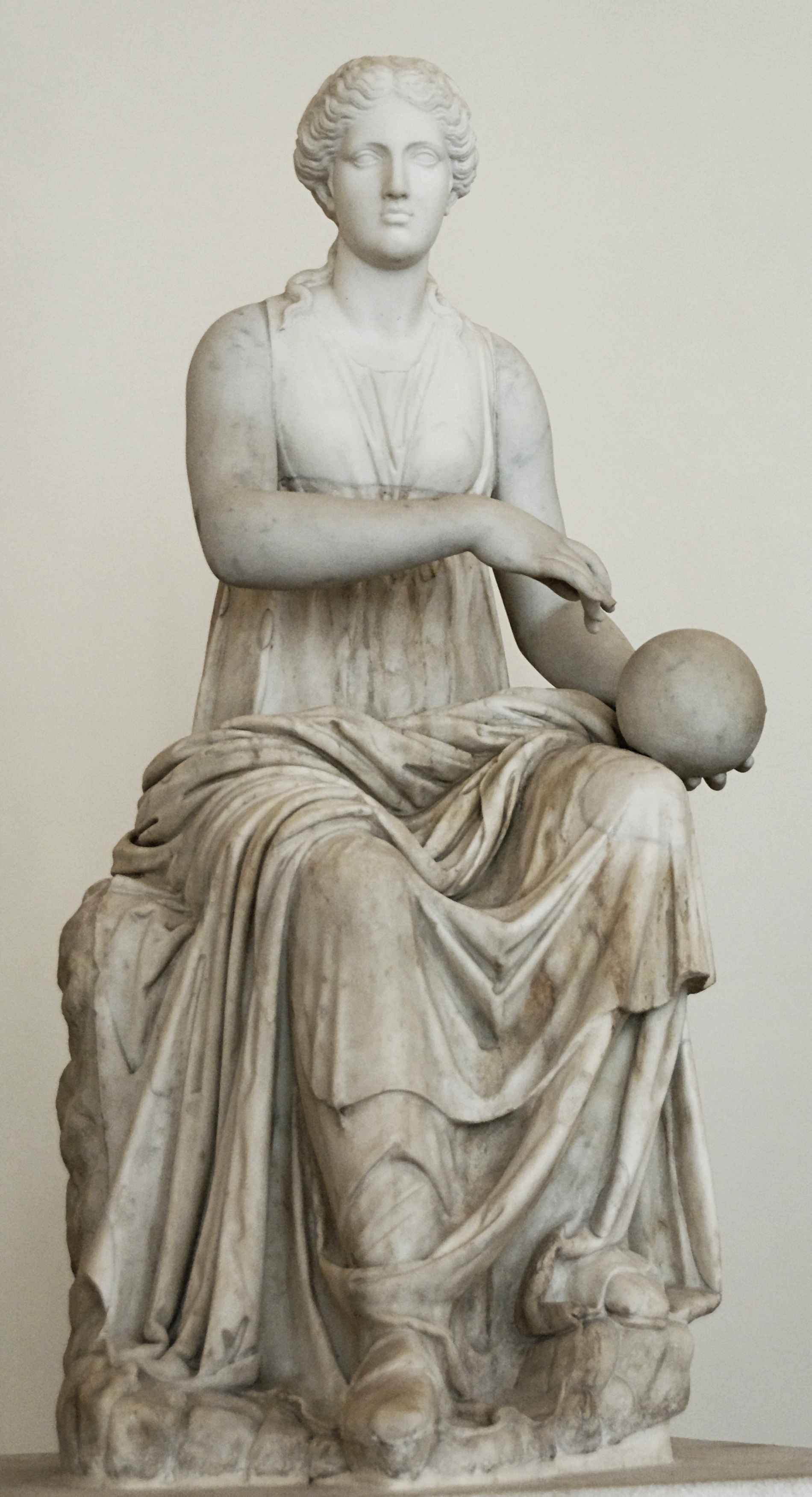 Urania, Muse of astronomy, element from a group of Apollo and the Muses. Medium-grained marble, Roman copy of the 1st century AD after an Hellenistic original; the head, both arms and the globe are 19th century restorations.